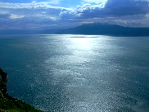 Photograph of the Argolic Gulf from the Palamidi in Nafplion, Greece.